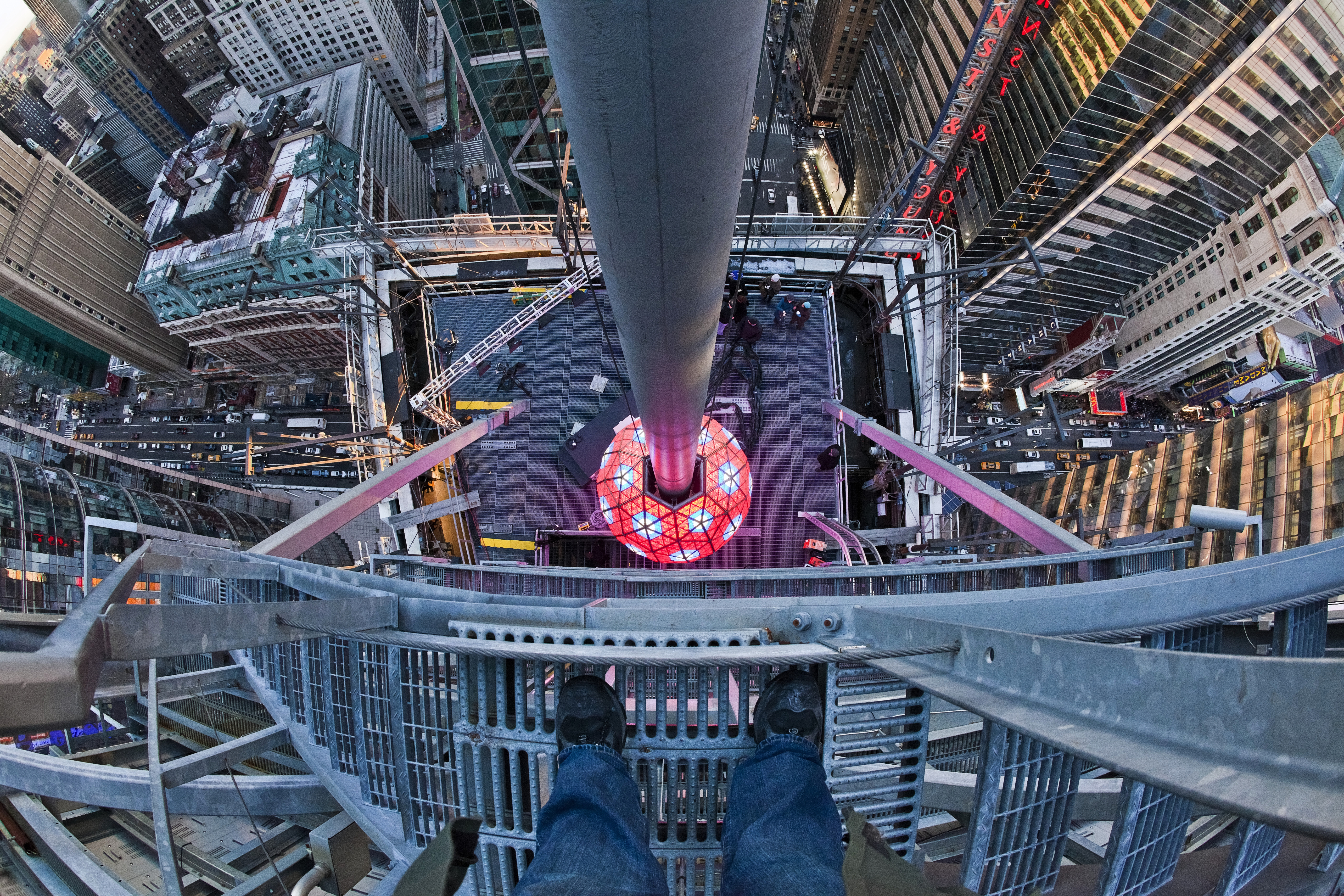 While assisting in setting up a robotic camera just above the 3 in "2013" this is what it looked like when I looked down.